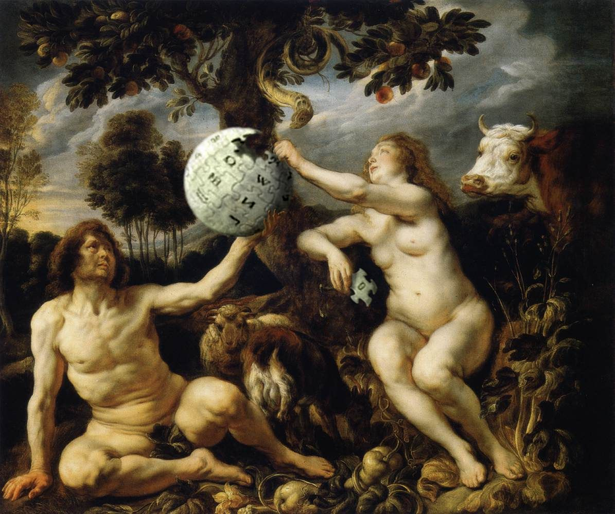 Wikipedia: taste the fruit of knowledge!